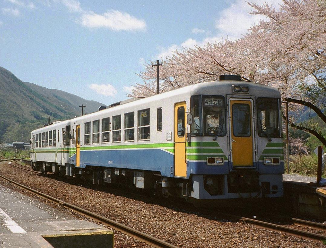 Aizu-railway Type AT-150 Diesel railcar(Japan). It takes a picture from the platform in the Aizu-line Ashinomakionsen-station premises. 会津鉄道AT-150形気動車。芦ノ牧温泉駅構内にて、ホームより撮影。